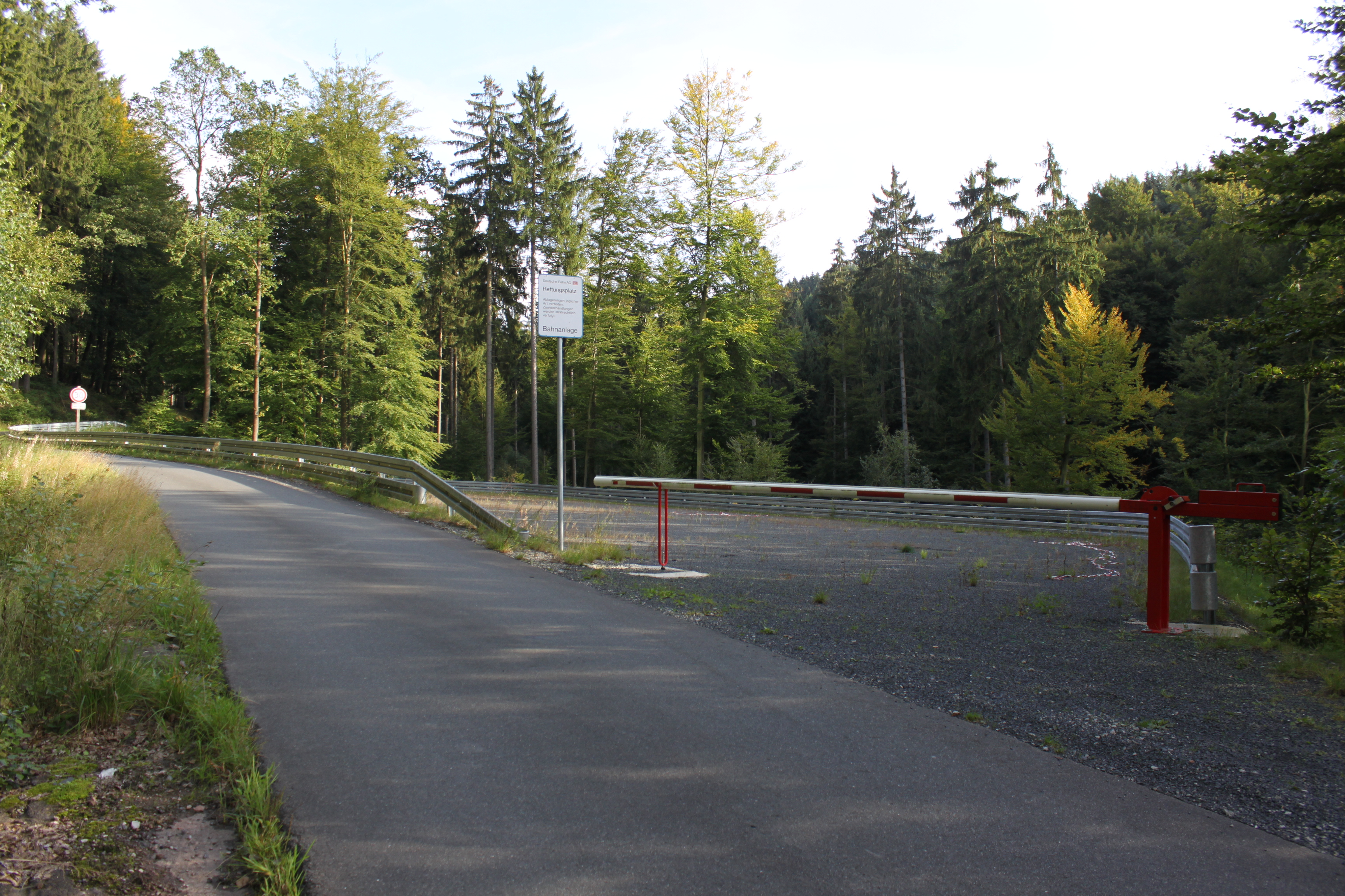 Emergency evacuation site, just next to the emercency exit at Mündener Tunnel.